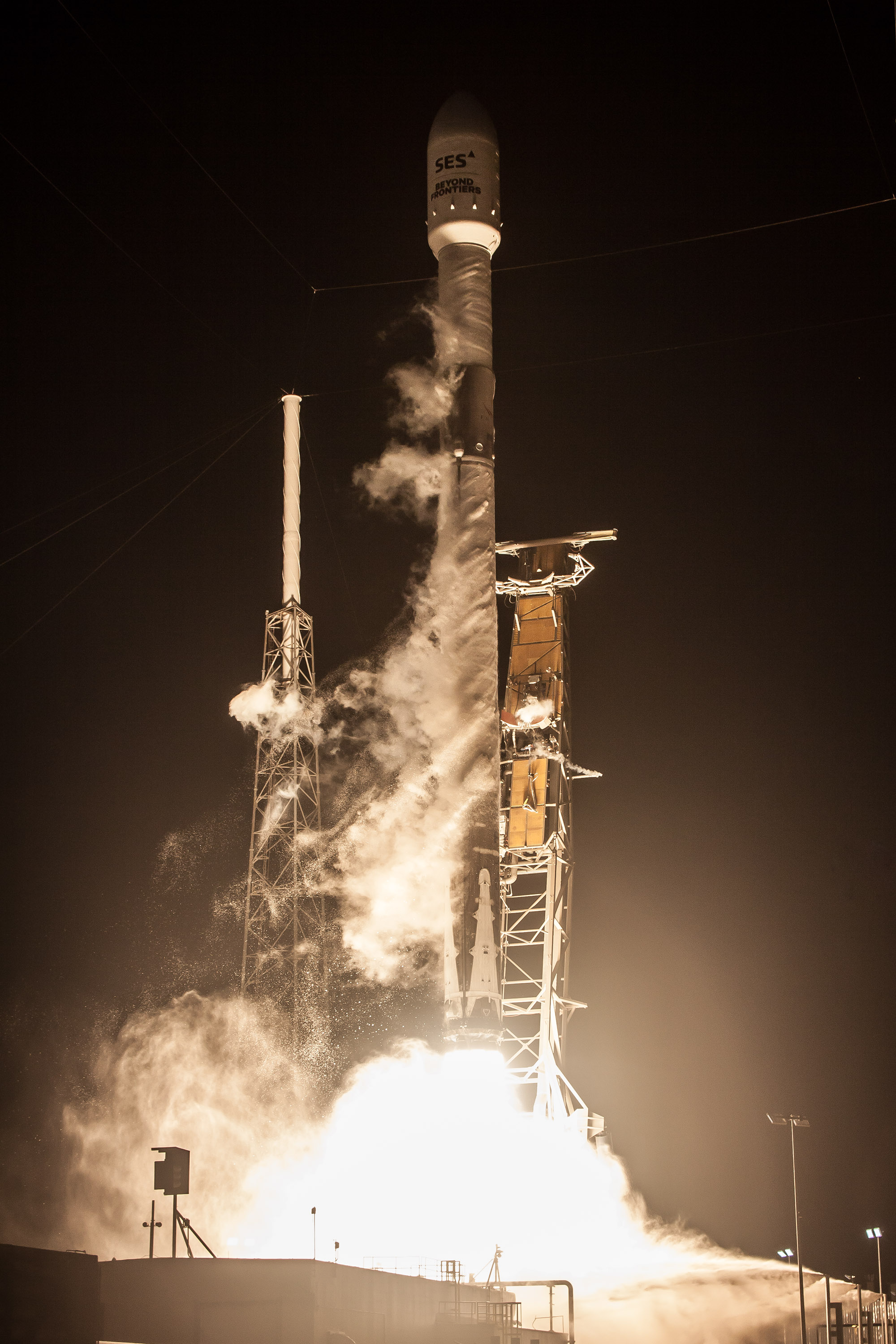 SES-12 Mission